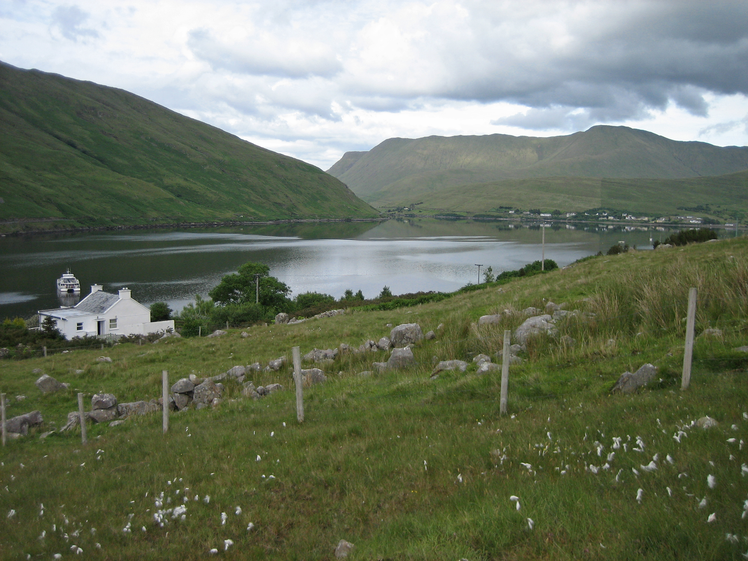 Leenane and the Killary